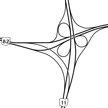 Depiction of Ohio 11 / Ohio 82 interchange near Warren, Ohio Homefryes 11:40, 10 August 2006 (UTC)